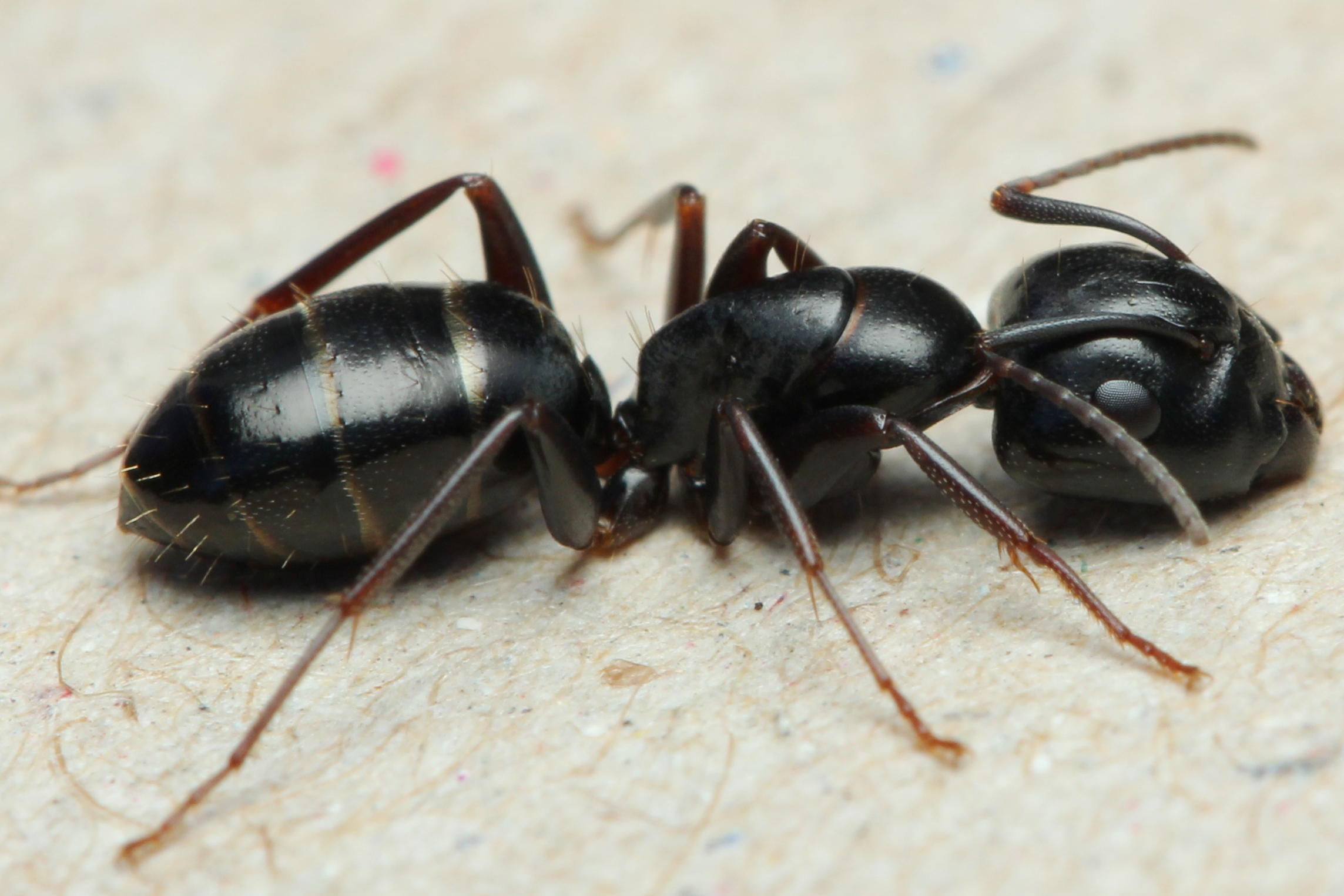 Camponotus fallax worker from Istria